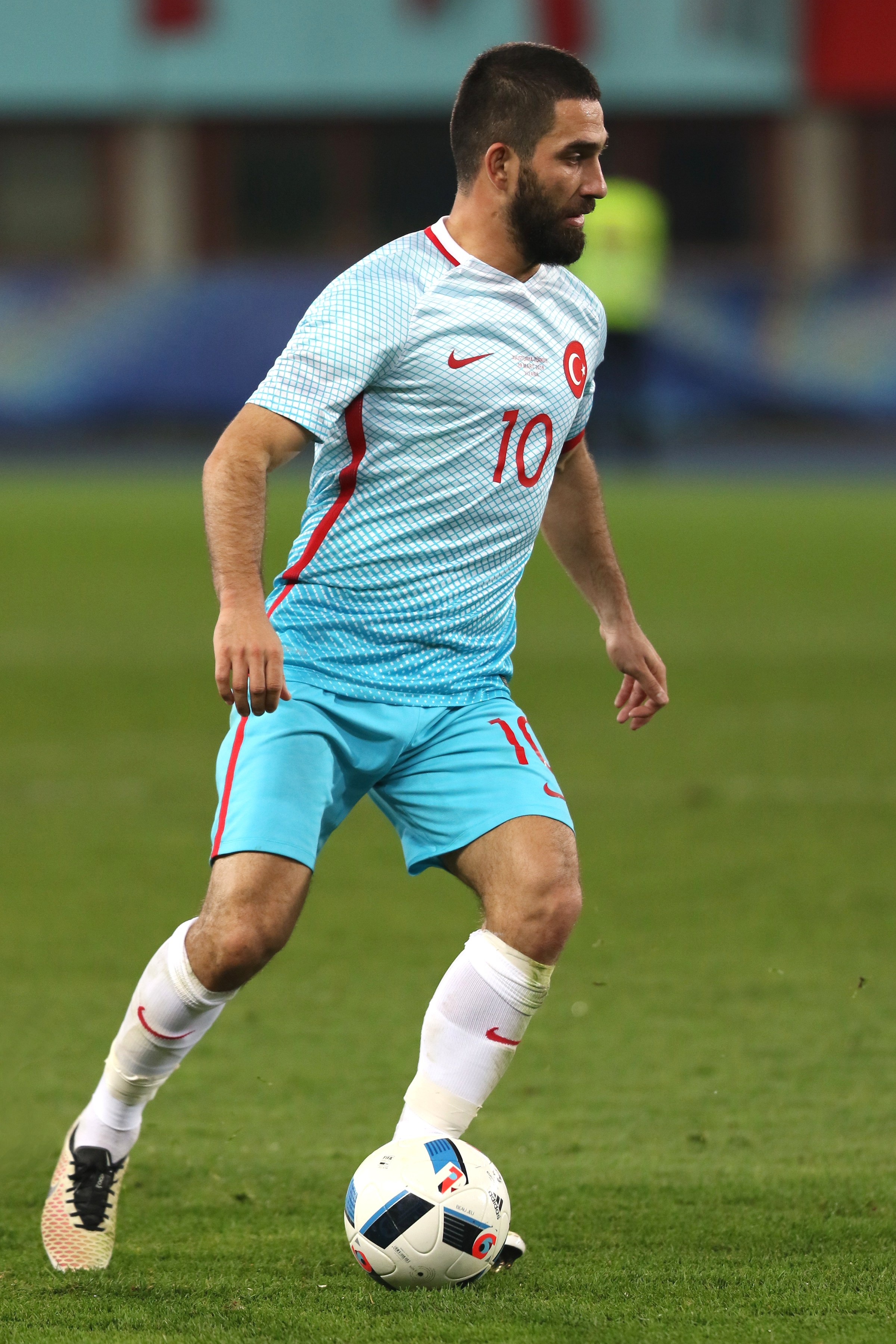 Friendly match – Austria (red shirts) vs. Turkey (blue shirts) 1–2 (1–1) on 2016-03-29 in Ernst-Happel-Stadion, Vienna – The photo shows Arda Turan (FC Barcelona).